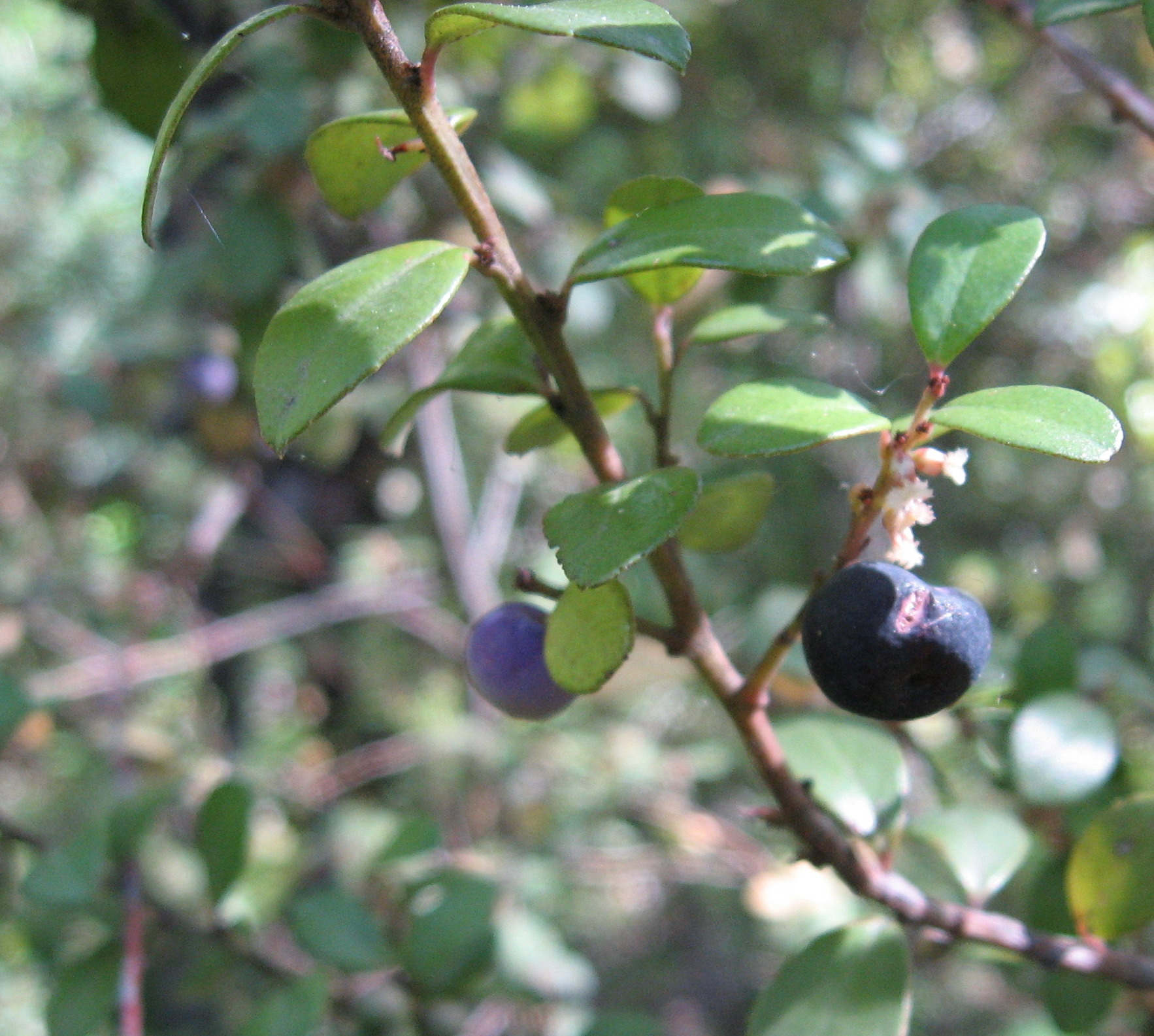 Berries of the Cape myrtle in the Royal Botanical Garden of Madrid